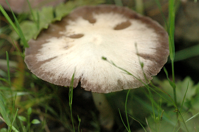 Psathyrella piluliformis from Commanster, Belgium. If you think this is a different taxon, please contact James Lindsey.